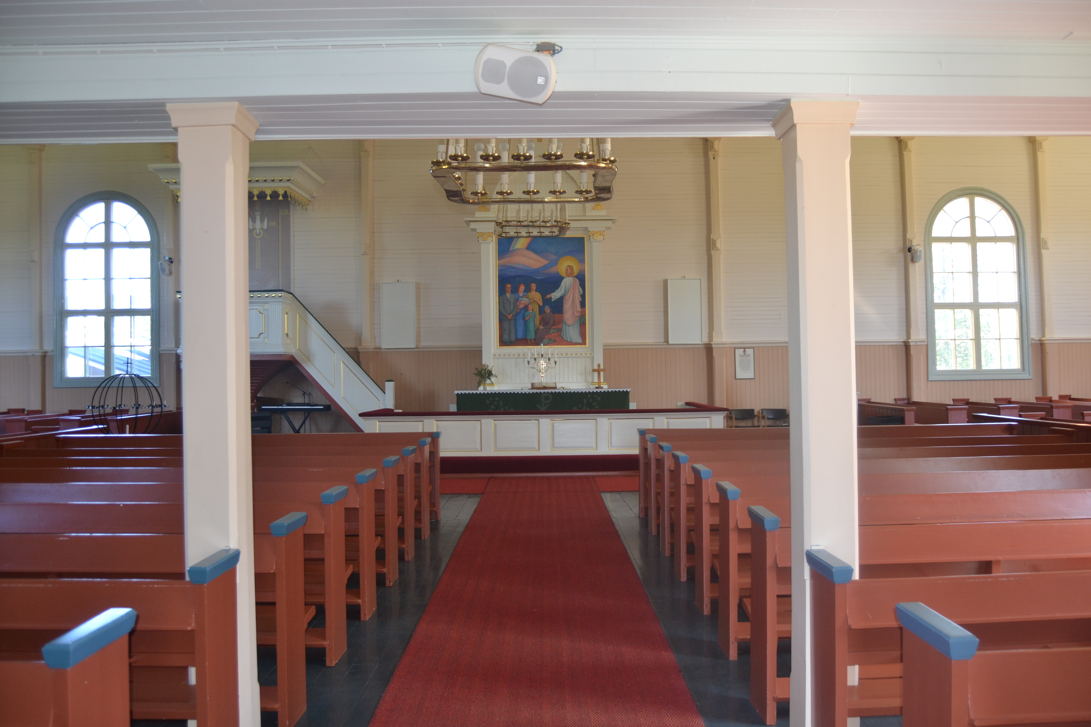 Interior of Muonio Church, Finland